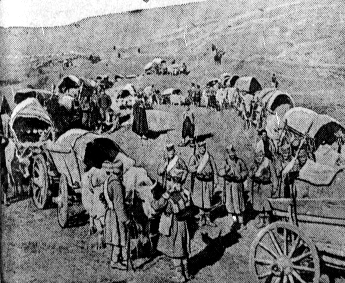 Original caption: View of a Bulgarian transport train and its convoy of infantrymen after the Bulgars had begun the invasion of Serbia.